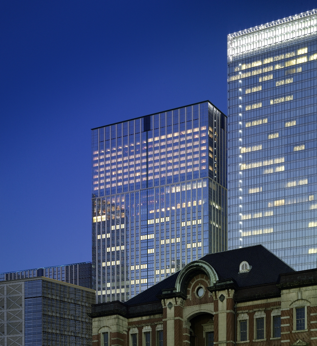 Exterior